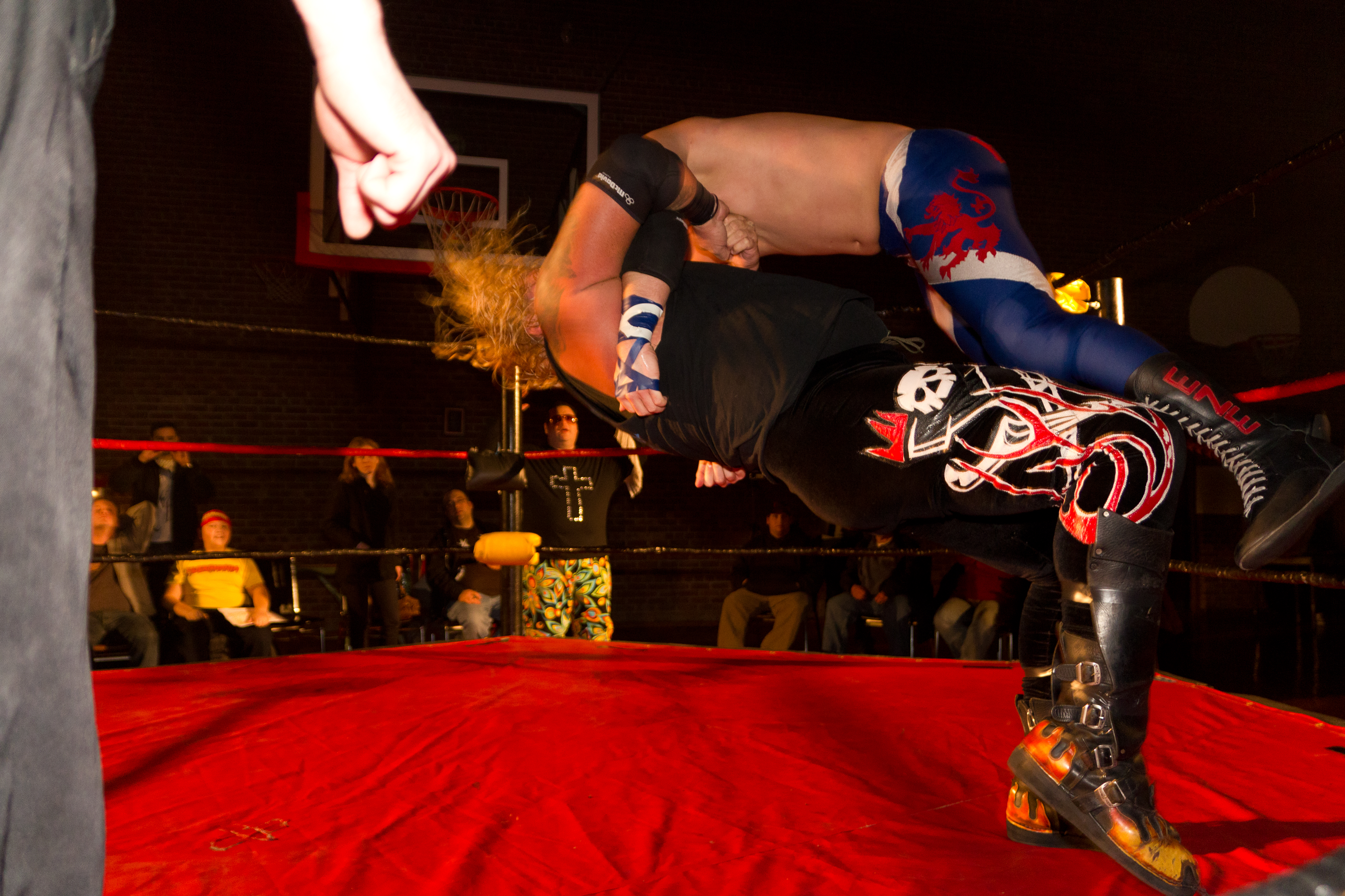 Pro wrestler Gangrel (real name David Heath) performing a double underhook suplex on "EZ-E" Eric Cairnie